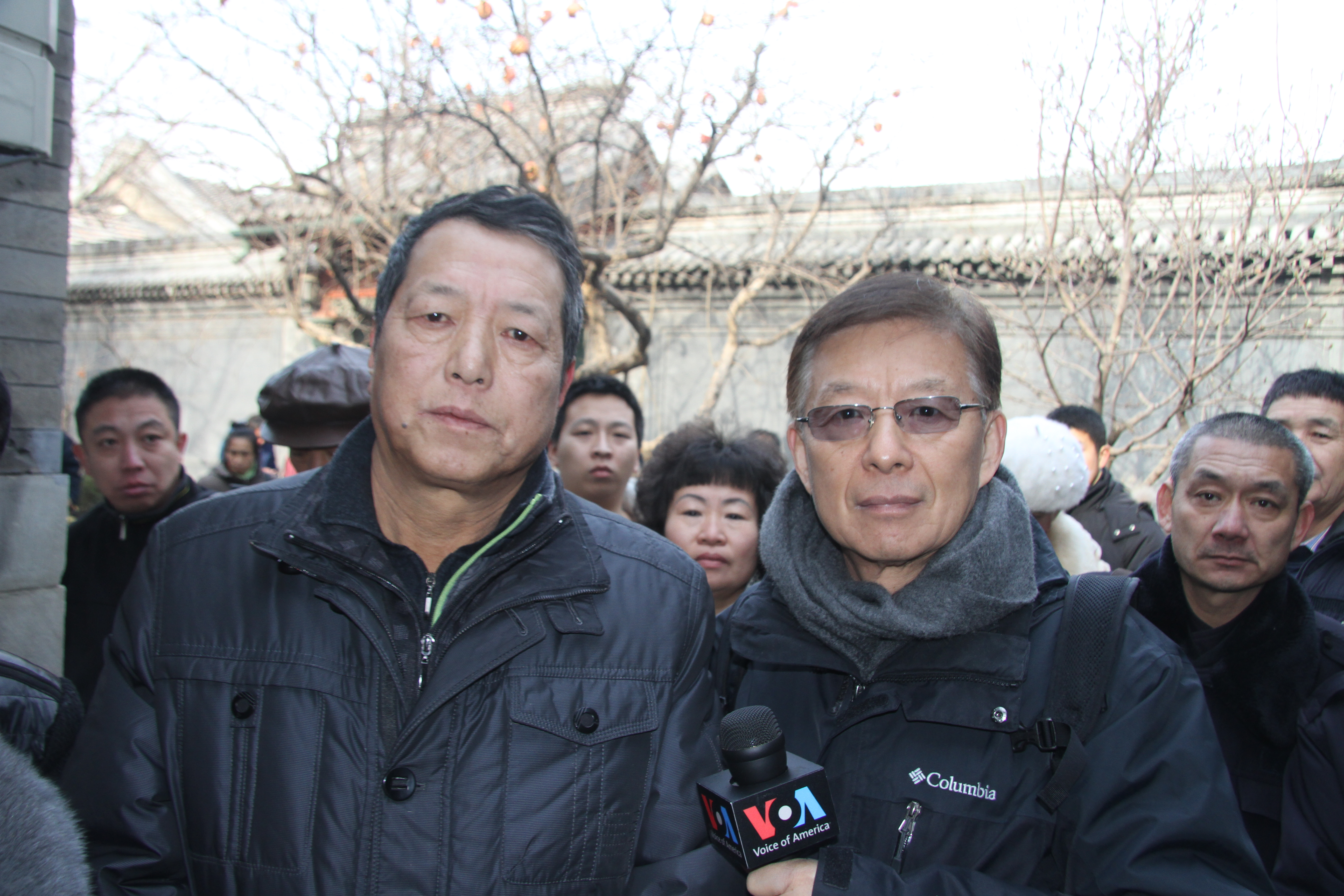 Zhao Erjun (left), the son of Zhao Ziyang, with VOA reporter Dong Fang on the 10th death anniversary of Zhao Ziyang.